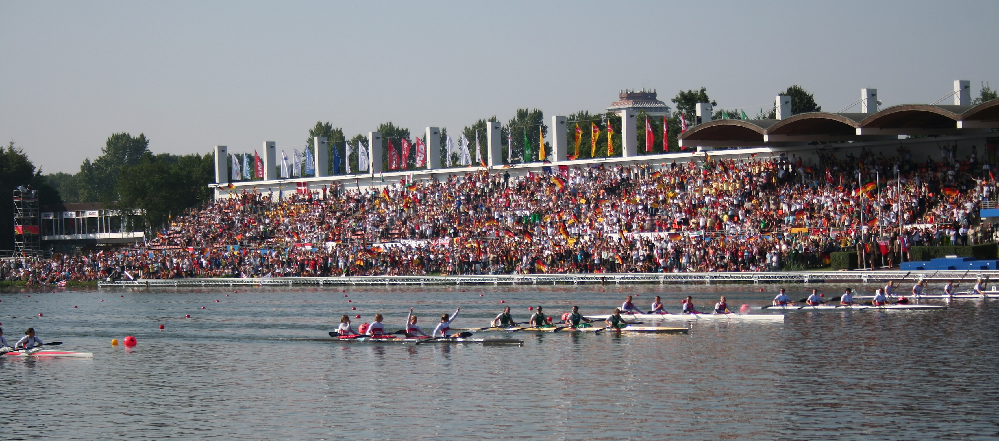 2007 ICF Canoe Sprint World Championships in Duisburg